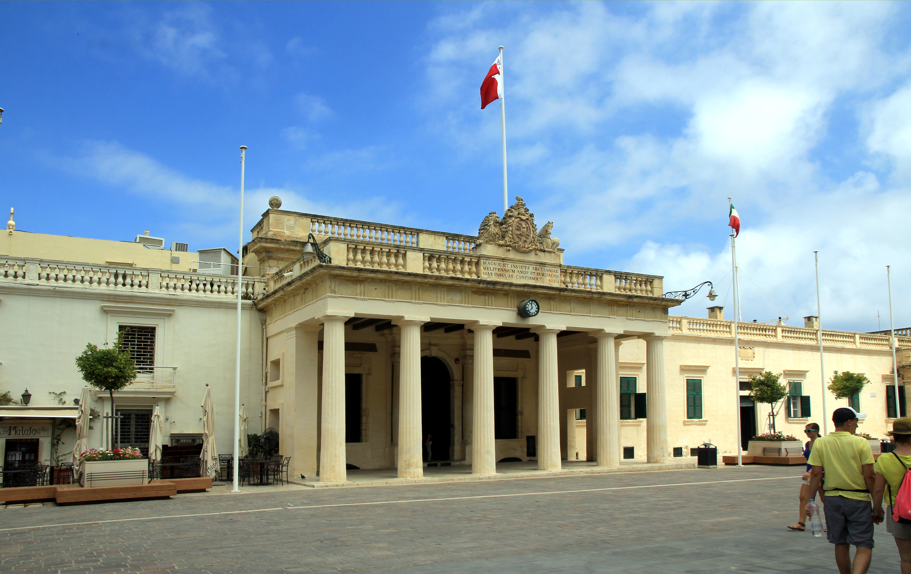 Office of the Attorney General at Misraħ San Ġorġ, Triq ir-Repubblika in Valletta, Malta